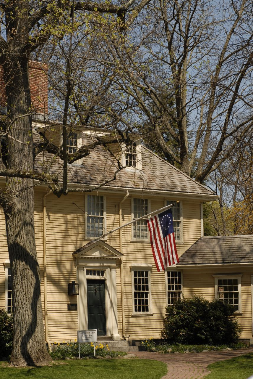 Lexington,MA